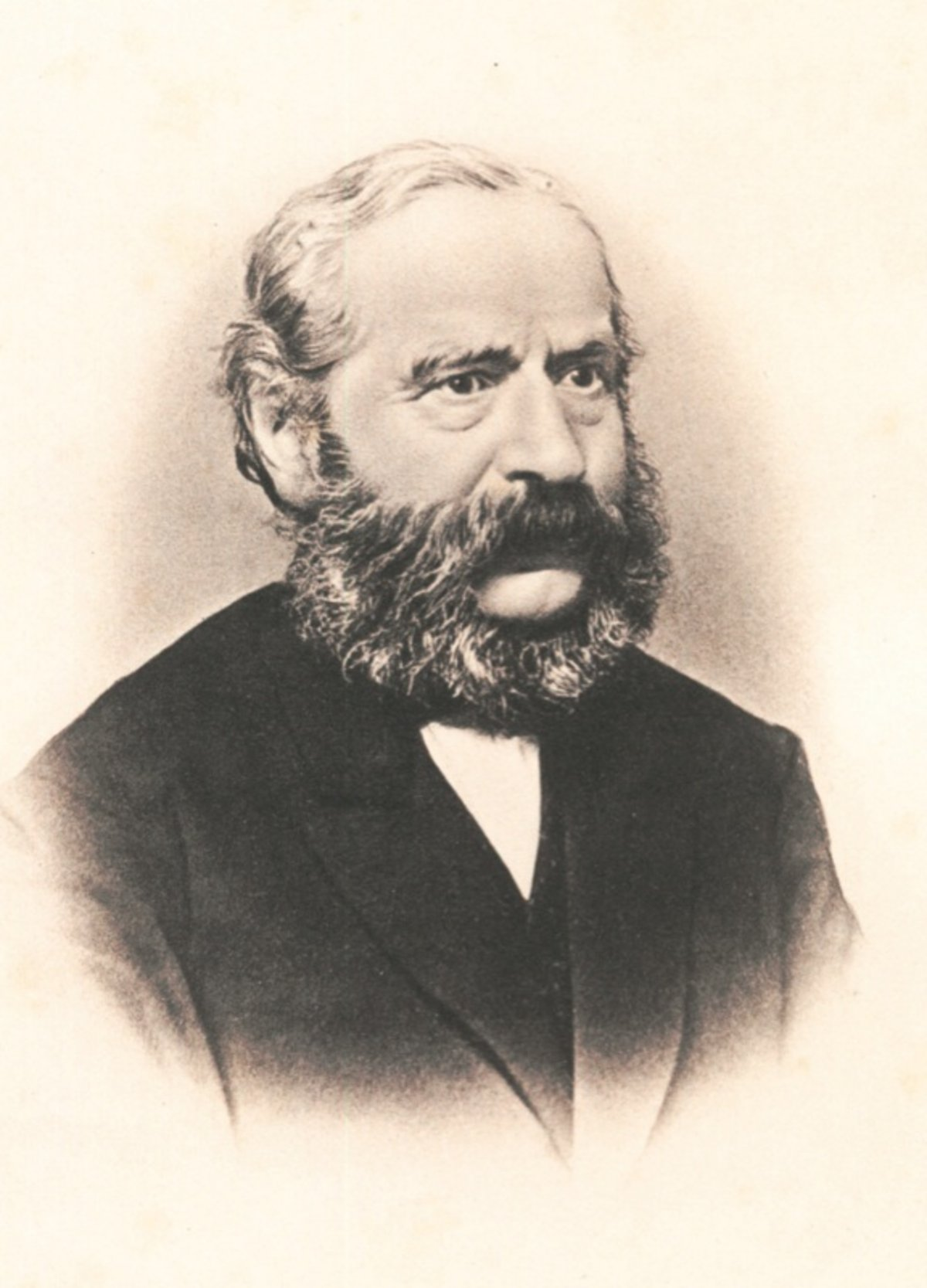 Portrait of Philipp Leopold Martin (1815–1885) made by his son Oskar Robert Leopold Martin